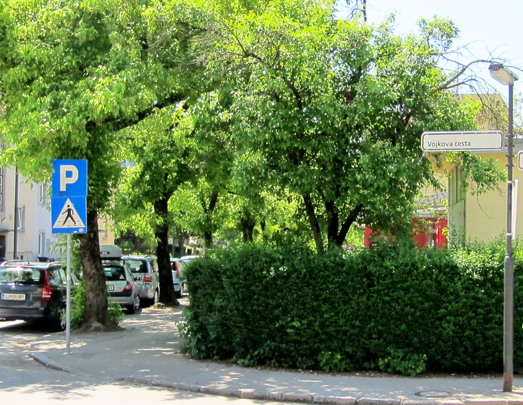 Vojko Street (Vojkova cesta) in Ljubljana, Slovenia, named after the Slovene Partisan Janko Premrl (nom de guerre Vojko) (1920–1943).